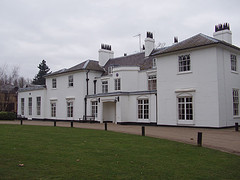 This is the main building at Gilwell Park, England.